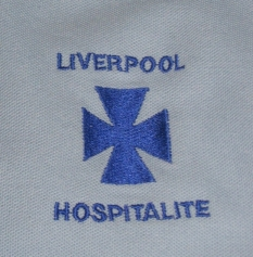 Liverpool Hospitalite badge